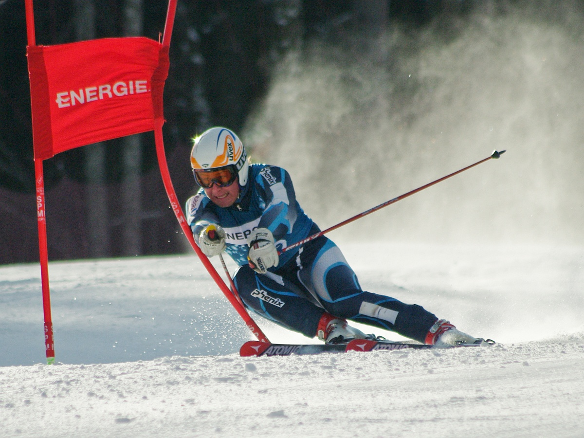 Norwegian alpine skier Eian Sandvik in the first run of the FIS Giant Slalom in Hinterstoder, Austria, on 8 March 2010.